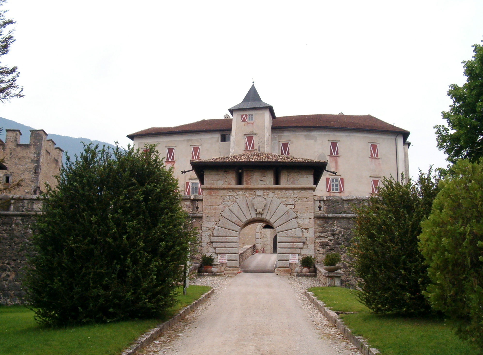 Castel Thun in Trentino (Italy)